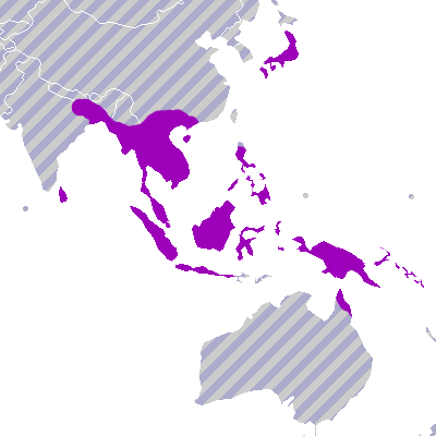 Distribution of Apostasioideae